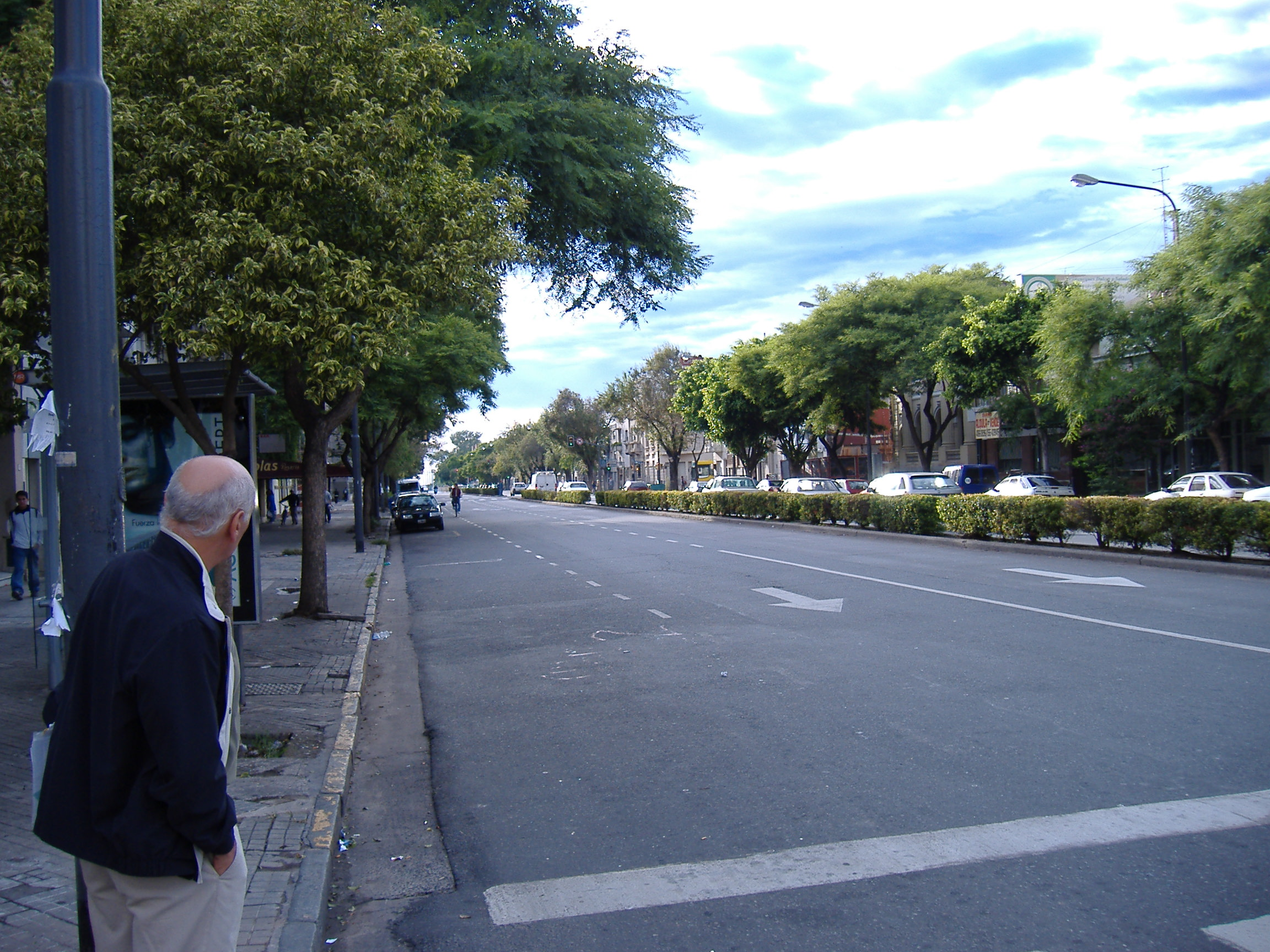 Pellegrini Avenue, Rosario, Argentina. The picture was taken by me, Pablo D. Flores, on 1 March 2006.